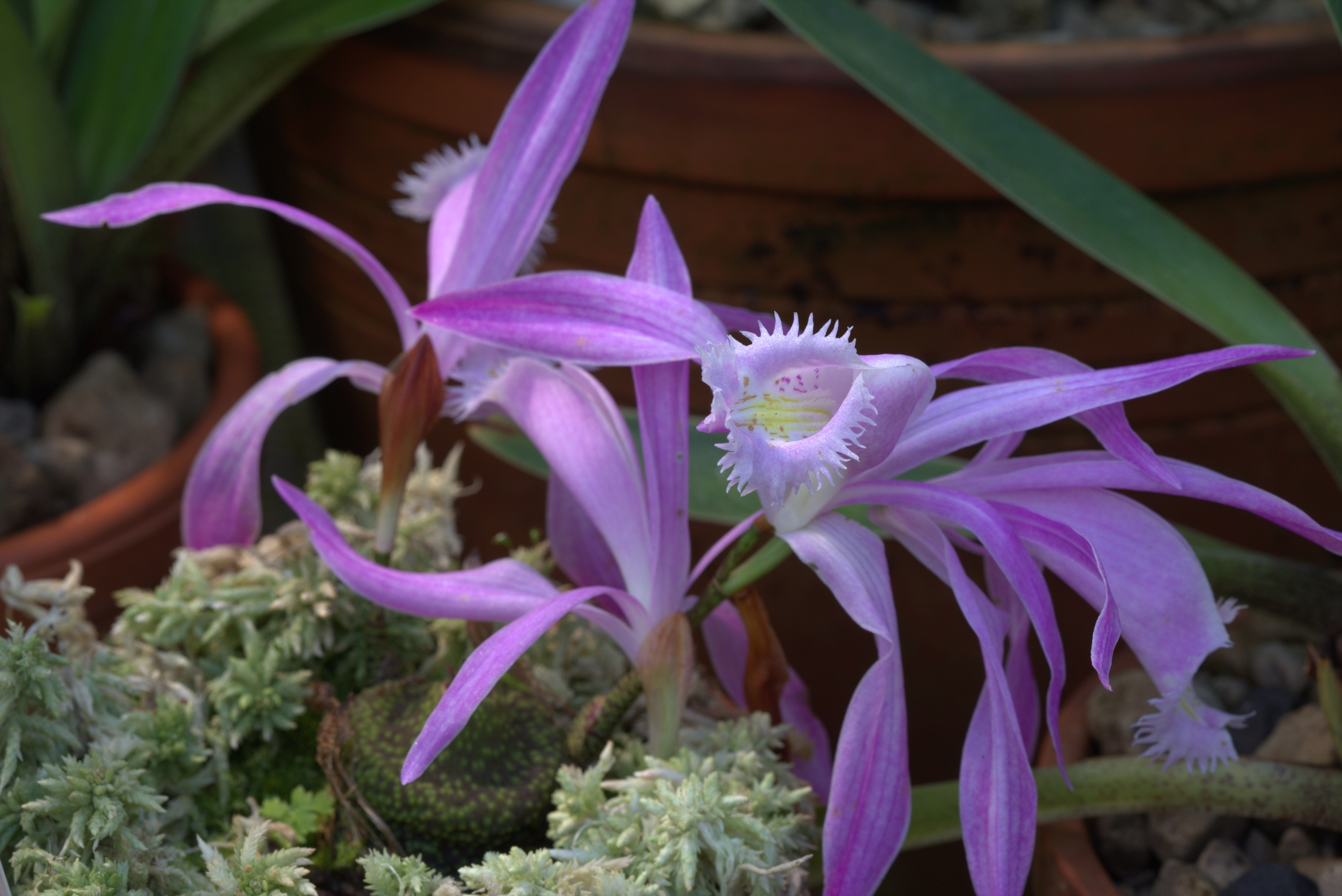 Pleione praecox in Gothenburg botanical garden. Plant id: 2015-843 p G --Karge